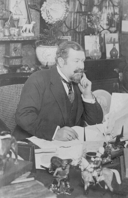 George Robert Sims bromide postcard print, published by Rotary Photographic Co Ltd in the early 1900s